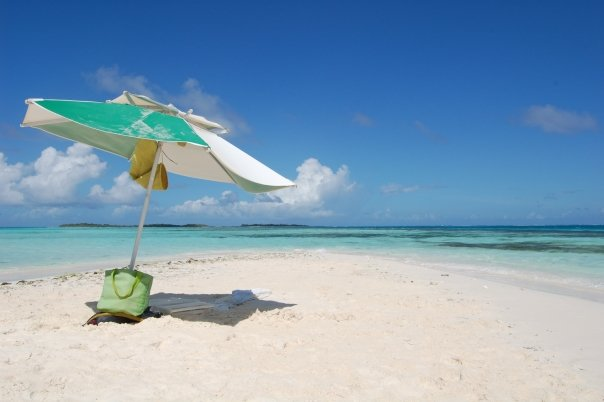 Venezuelan Los Roques - Bajo Fabian